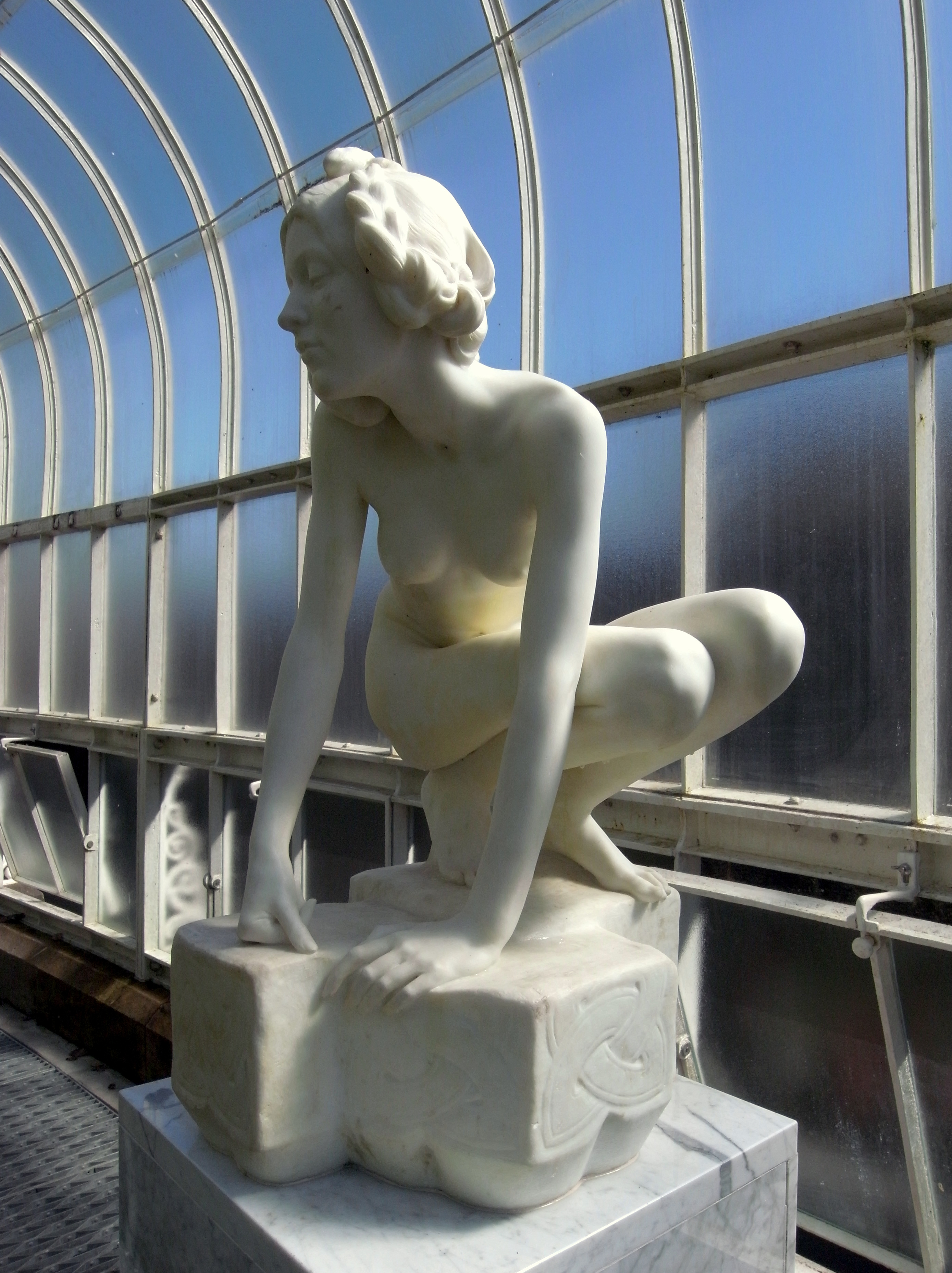 Glasgow Botanic Gardens. Kibble Palace. William Goscombe John (1860-1952), The Elf, marble, 1899.